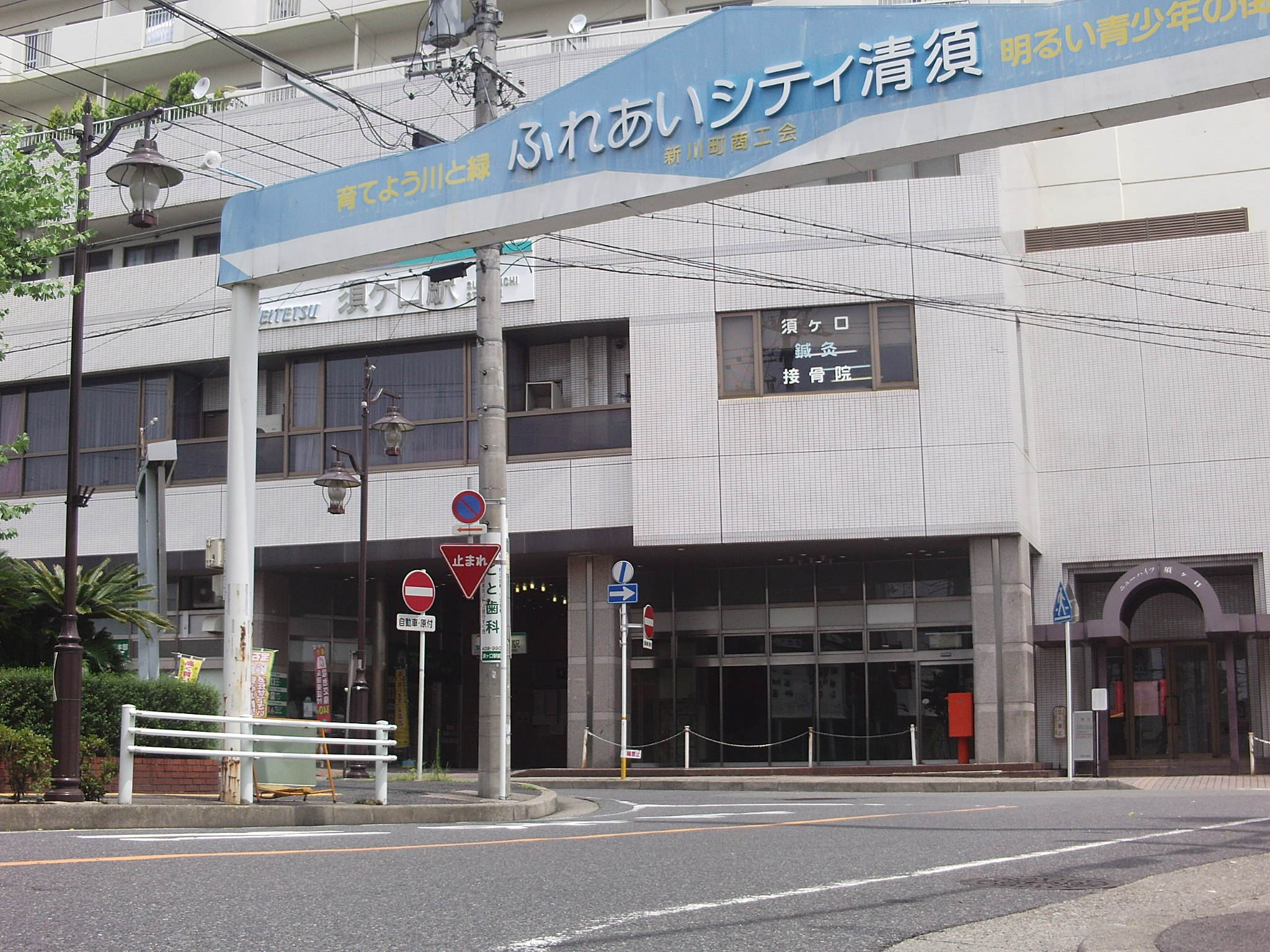 Aichi prefectural road No.140 in Sukaguchi, Kiyosu, Aichi. Starting point, Sukaguchi Station.